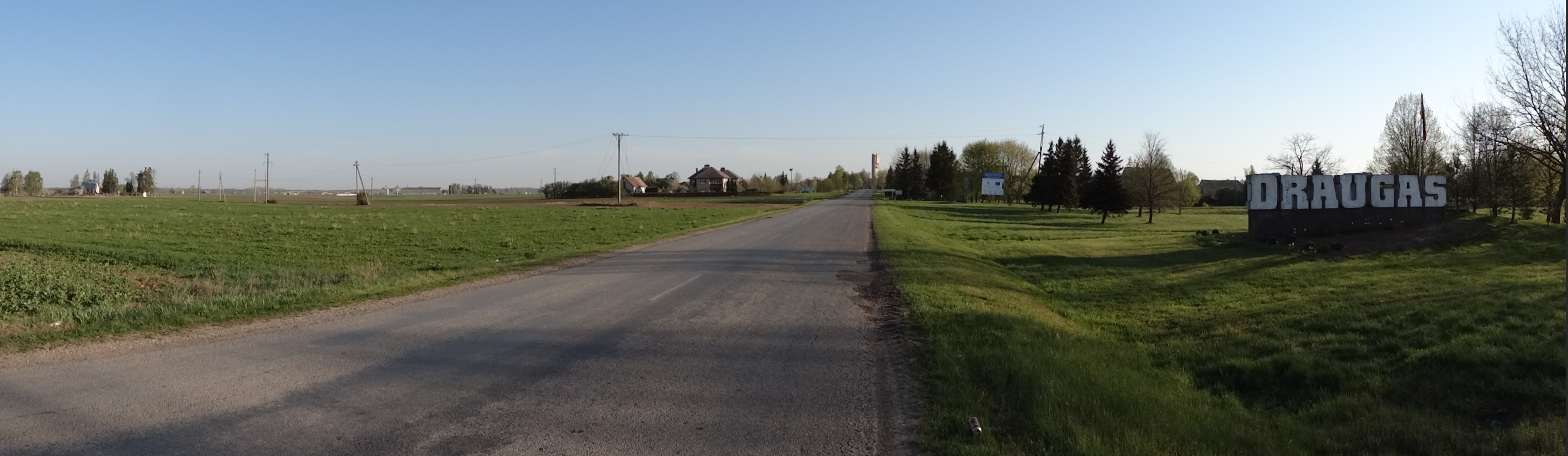 Alksniupiai, Radviliškis District, Lithuania